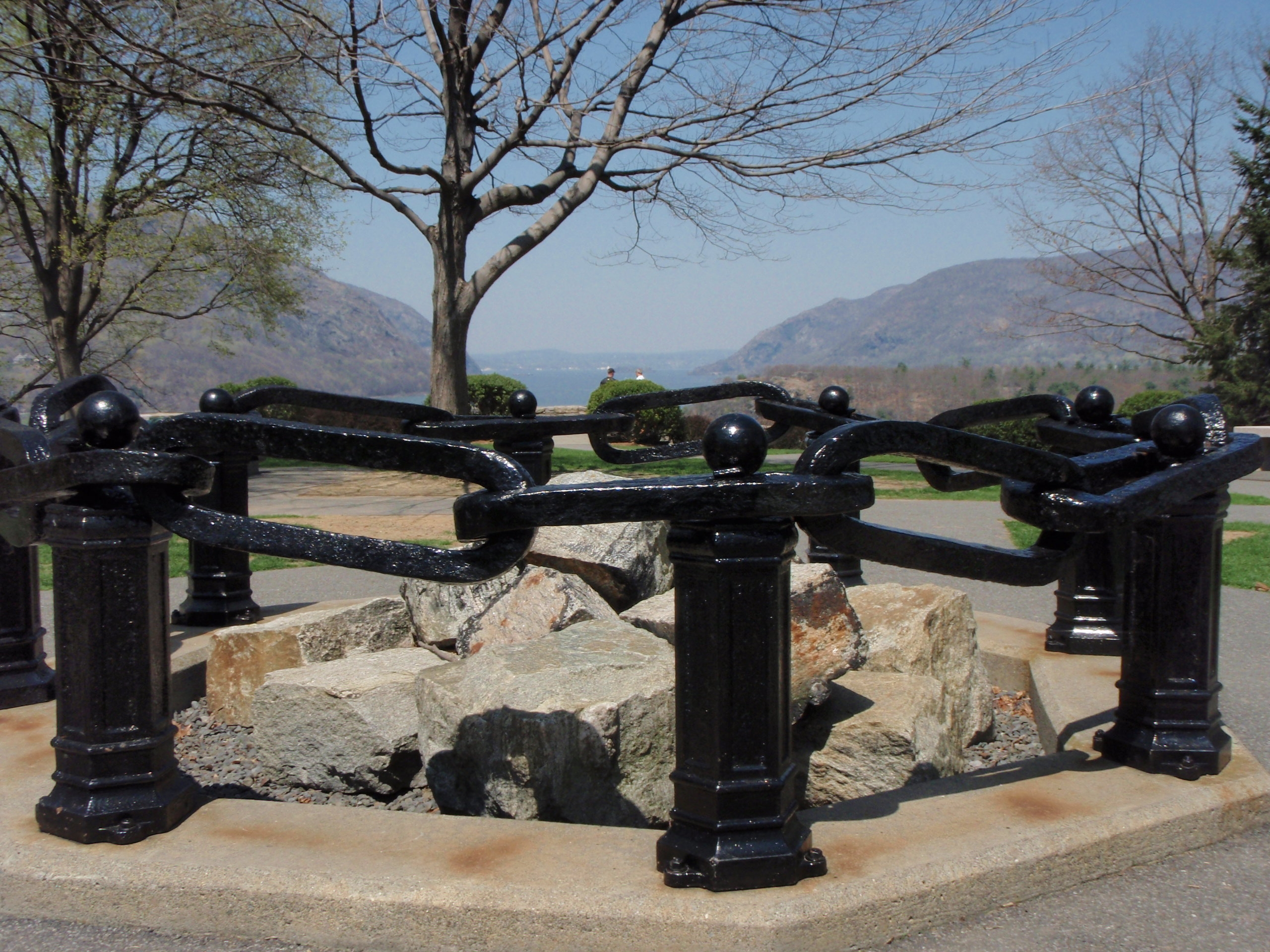 What has been preserved of the Great Chain. It is located at Trophy Point at West Point, NY. The display consists of thirteen links of the chain (one for each original state), one swivel, and one clevis. The signature "S Curve" of the Hudson, which made West Point so defensible, is in the background.